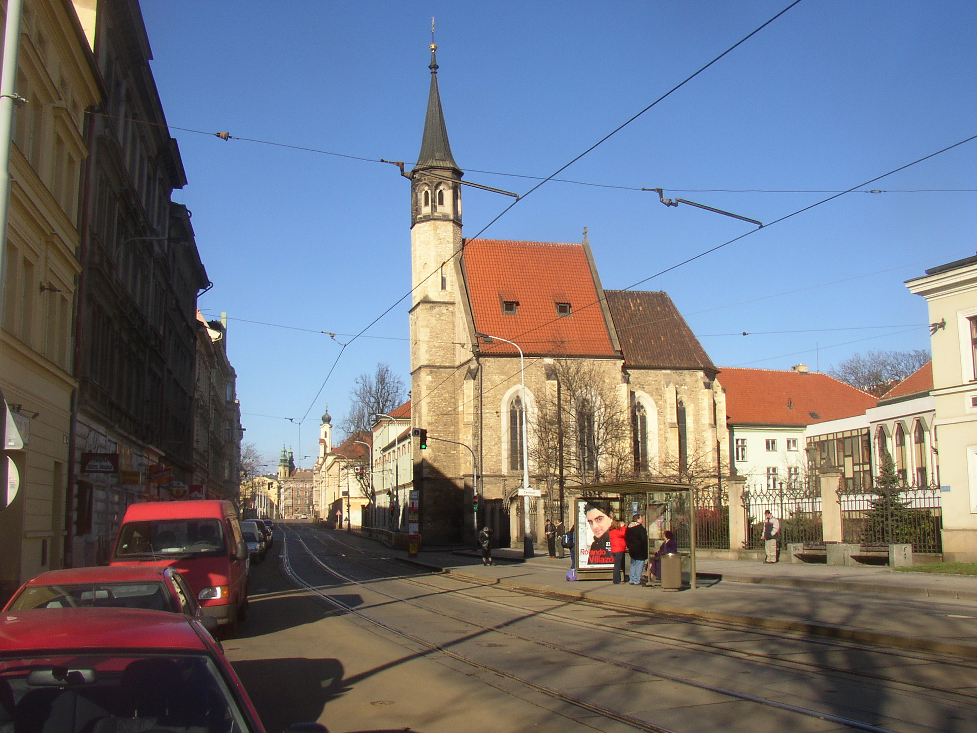 Our Lady`s Annunciation church Na trávníčku in Prague, Czech Republic. A view along Na Slupi Street.